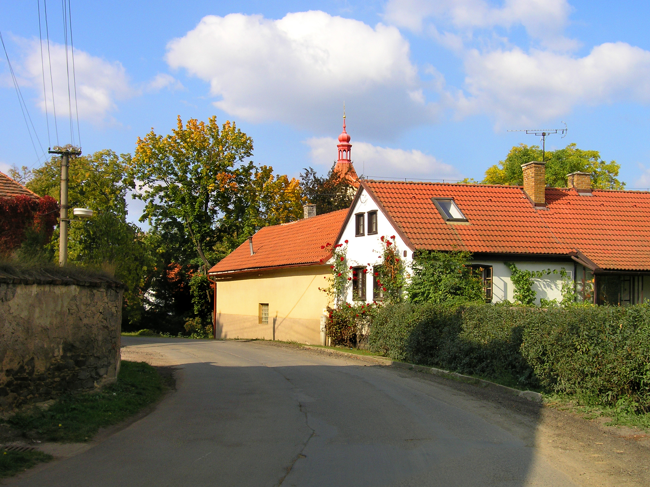 Road to common in Sluštice, Czech Republic